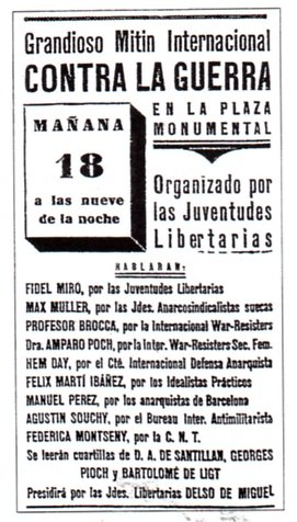 Image of a poster advertising an anti-war meeting in Barcelona on the eve of the Spanish Civil War. It reads:Great rally against war in Plaza Monumental.TOMORROW 18 at 9 PMOrganized by libertarian youth.SpeakersFidel Miro from libertarian youth.Max Muller from Swedish anarcho-syndicalist youth.Professor Brocca from War Resisters International Fem. sectionHem Day from the International Committee of the anarchist defenseFélix Martí Ibañez from practical idealistsManuel Pérez from Barcelonian anarchistsAugustin Souchy from the anti-militarist international bureauFederica Montseny from the CNTWe will read texts from D.A. Santillan, George Pioch and Bartolomé de Ligt.Presided by Libertarian Youth "Delso de Miguel".